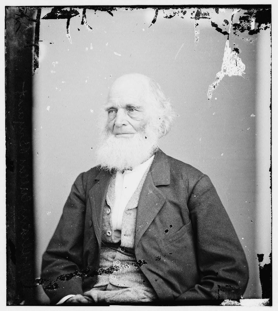 William Cullen Bryant (November 3, 1794 - June 12, 1878) an American romantic poet, journalist, political adviser, and homeopath.